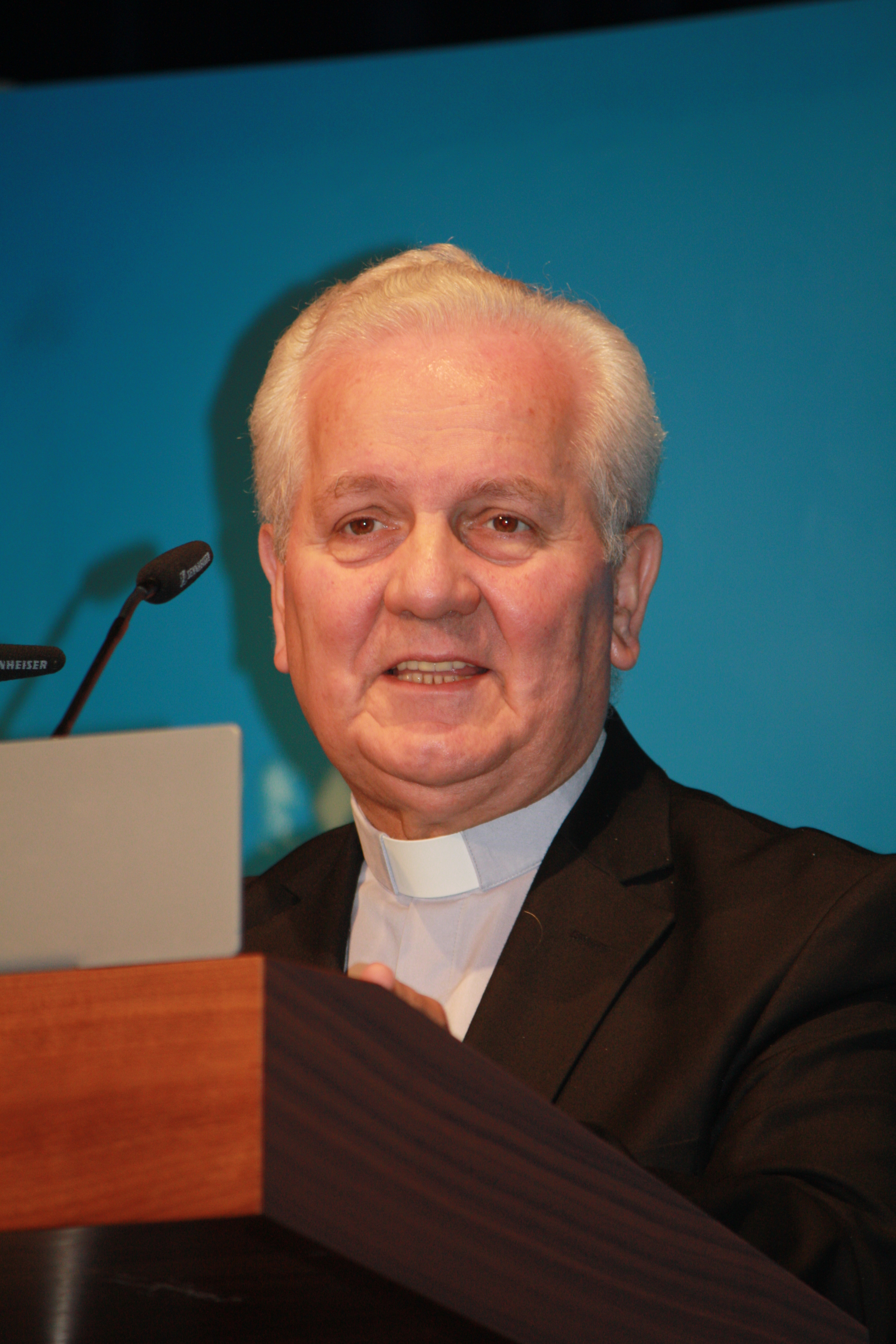 Franjo Komarica, bishop of Banja Luka